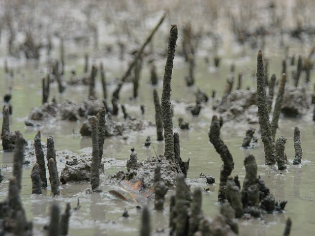 Pneumatophors of Avicennia germinans (Avicennioideae-Acanthaceae). Mangroves of the Caeté estuary, Bragança, Pará, North Brazil